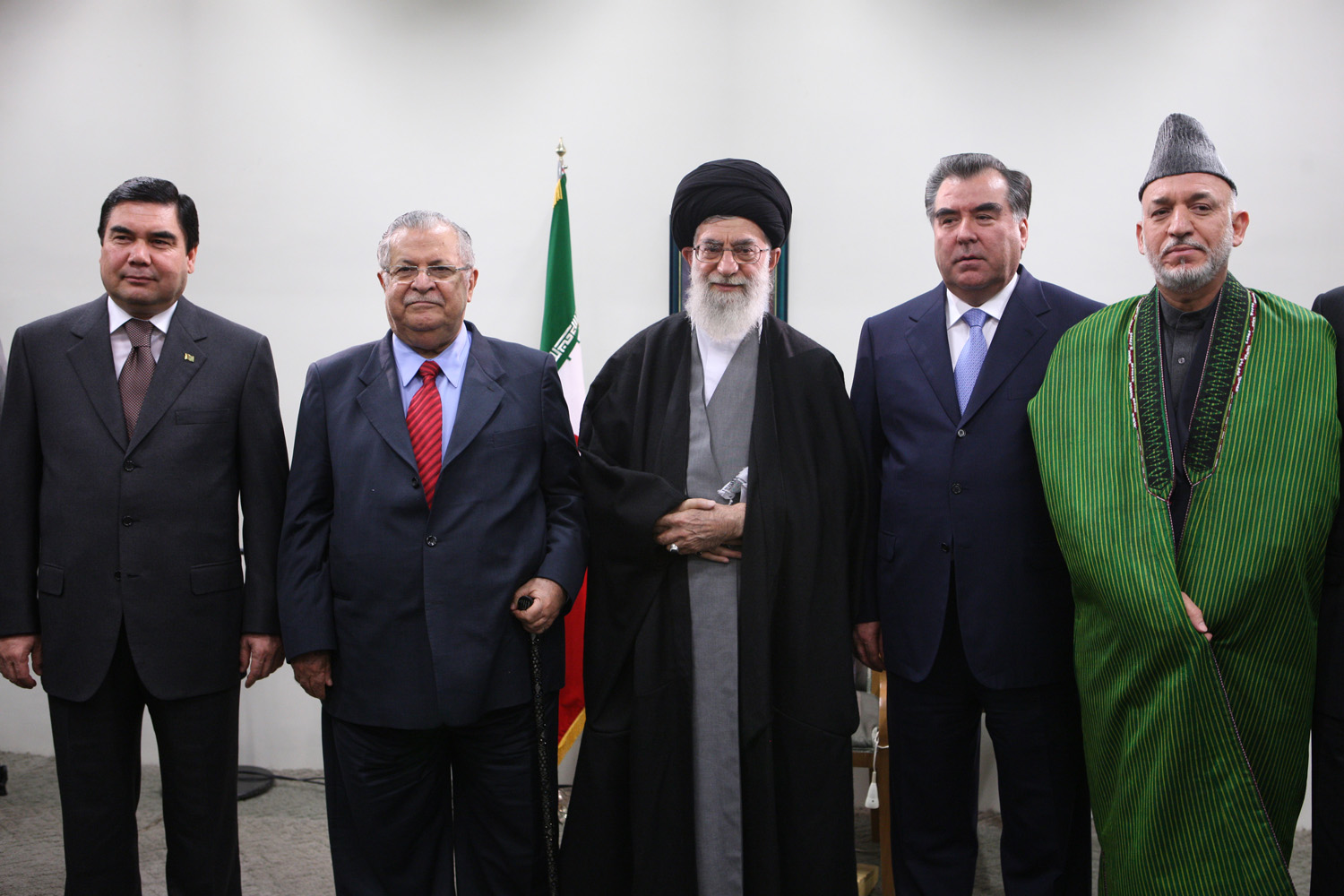 Meetings of Presidents participated in Nowruz with Ali Khamenei - Tehran, Iran from Left to right: Gurbanguly Berdimuhamedow, Jalal Talabani, Ali Khamenei, Emomali Rahmon and Hamid Karzai